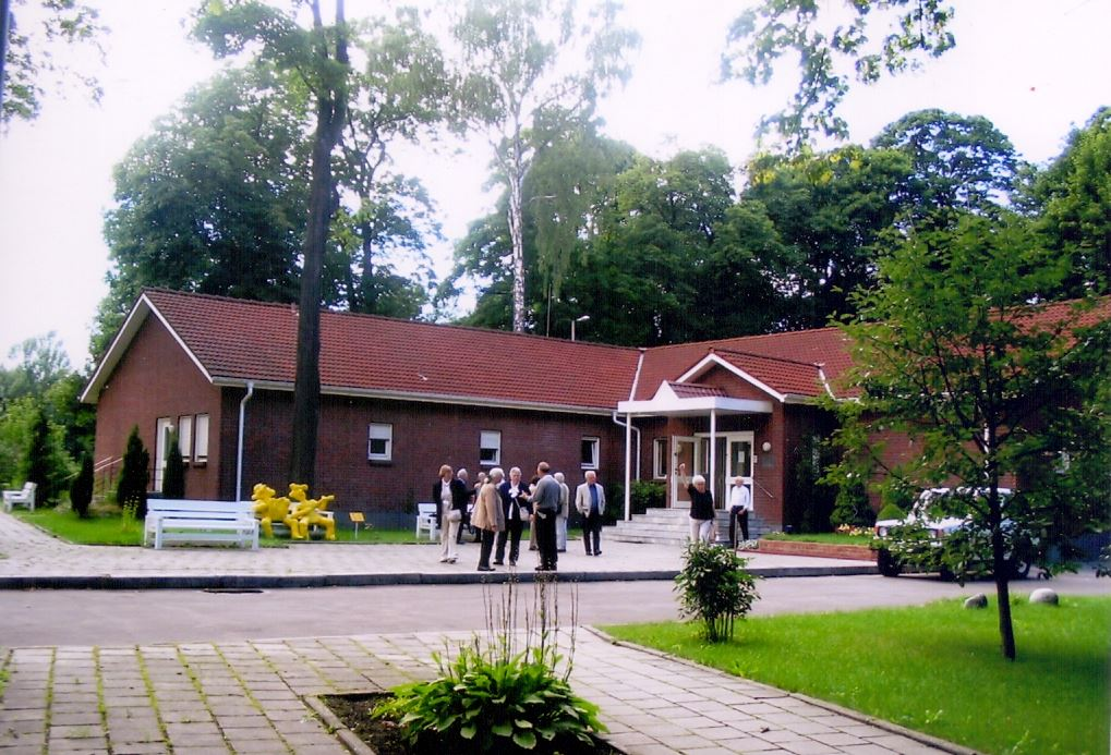 The German-Russian-House exists since 1993 in Kaliningrad/ Russia.